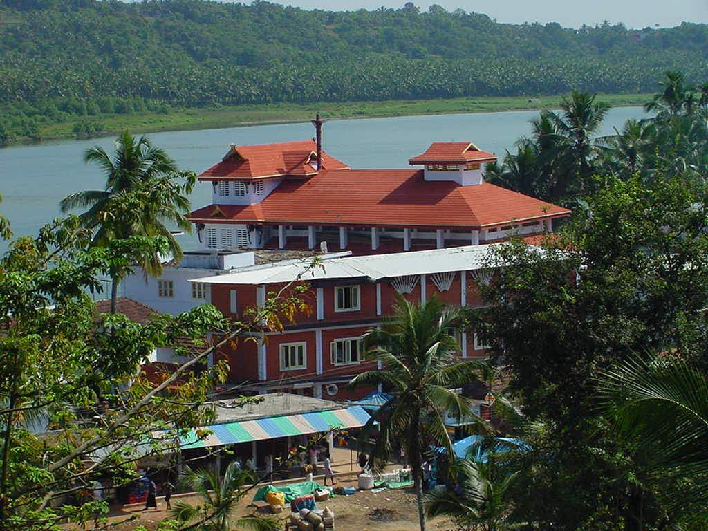 Parassini Madappura Sree MuthappanTemple View fromBackside